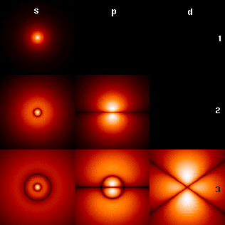 First few hydrogen atom orbitals; cross section showing color-coded probability density for different n=1,2,3 and l="s","p","d"; note: m=0 The picture shows the first few hydrogen atom orbitals (energy eigenfunctions). These are cross-sections of the probability density that are color-coded (black=zero density, white=highest density). The angular momentum quantum number l is denoted in each column, using the usual spectroscopic letter code ("s" means l=0; "p": l=1; "d": l=2). The main quantum number n (=1,2,3,...) is marked to the right of each row. For all pictures the magnetic quantum number m has been set to 0, and the cross-sectional plane is the x-z plane (z is the vertical axis). The probability density in three-dimensional space is obtained by rotating the one shown here around the z-axis. Note the striking similarity of this picture to the diagrams of the normal modes of displacement of a soap film membrane oscillating on a disk bound by a wire frame. See, e.g., Vibrations and Waves, A.P. French, M.I.T. Introductory Physics Series, 1971, ISBN 0393099369, page 186, Fig. 6-13. See also Normal vibration modes of a circular membrane.